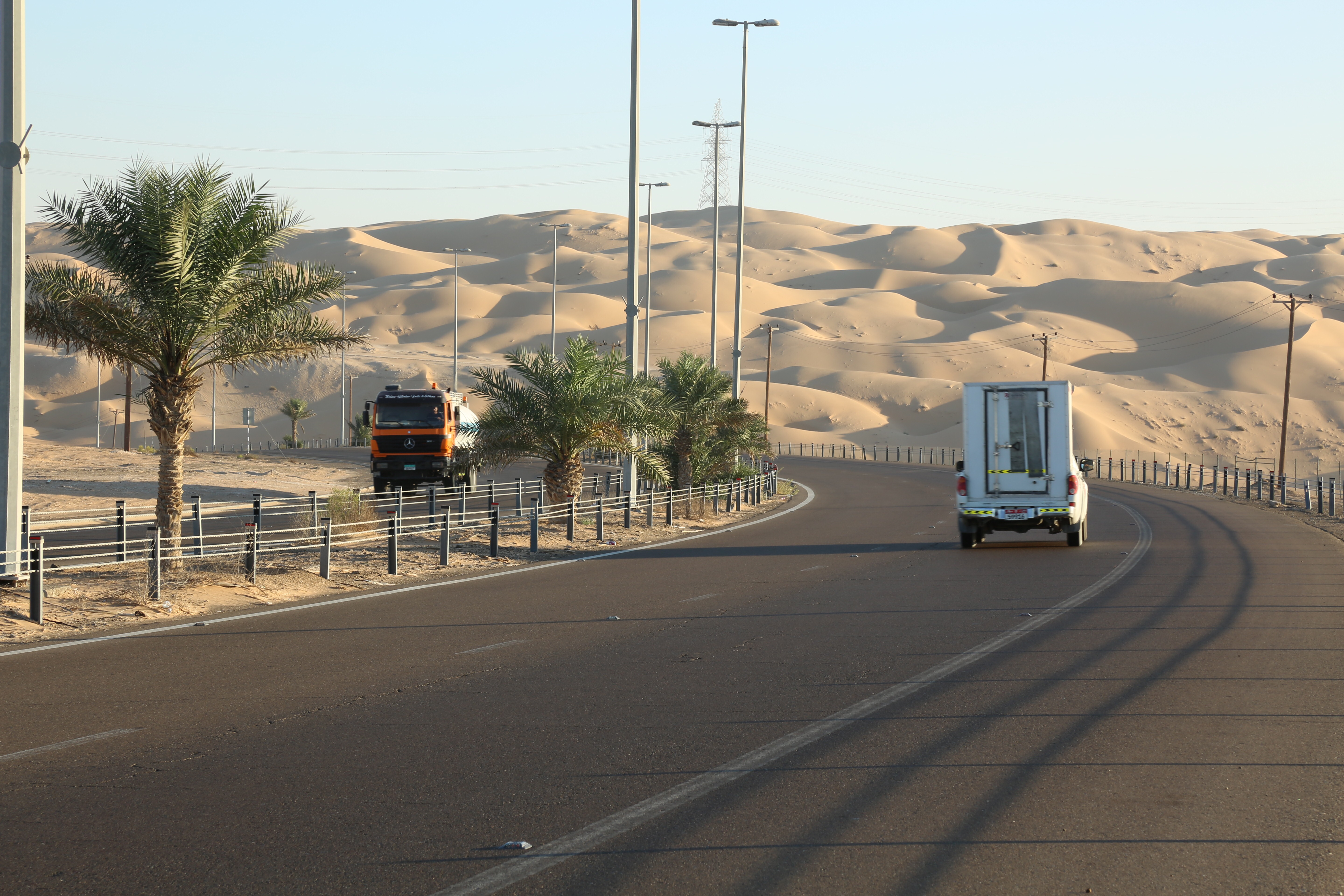 The towering dunes of the Liwa desert in the background